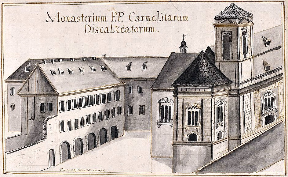 Karmeliterkloster Heidelberg